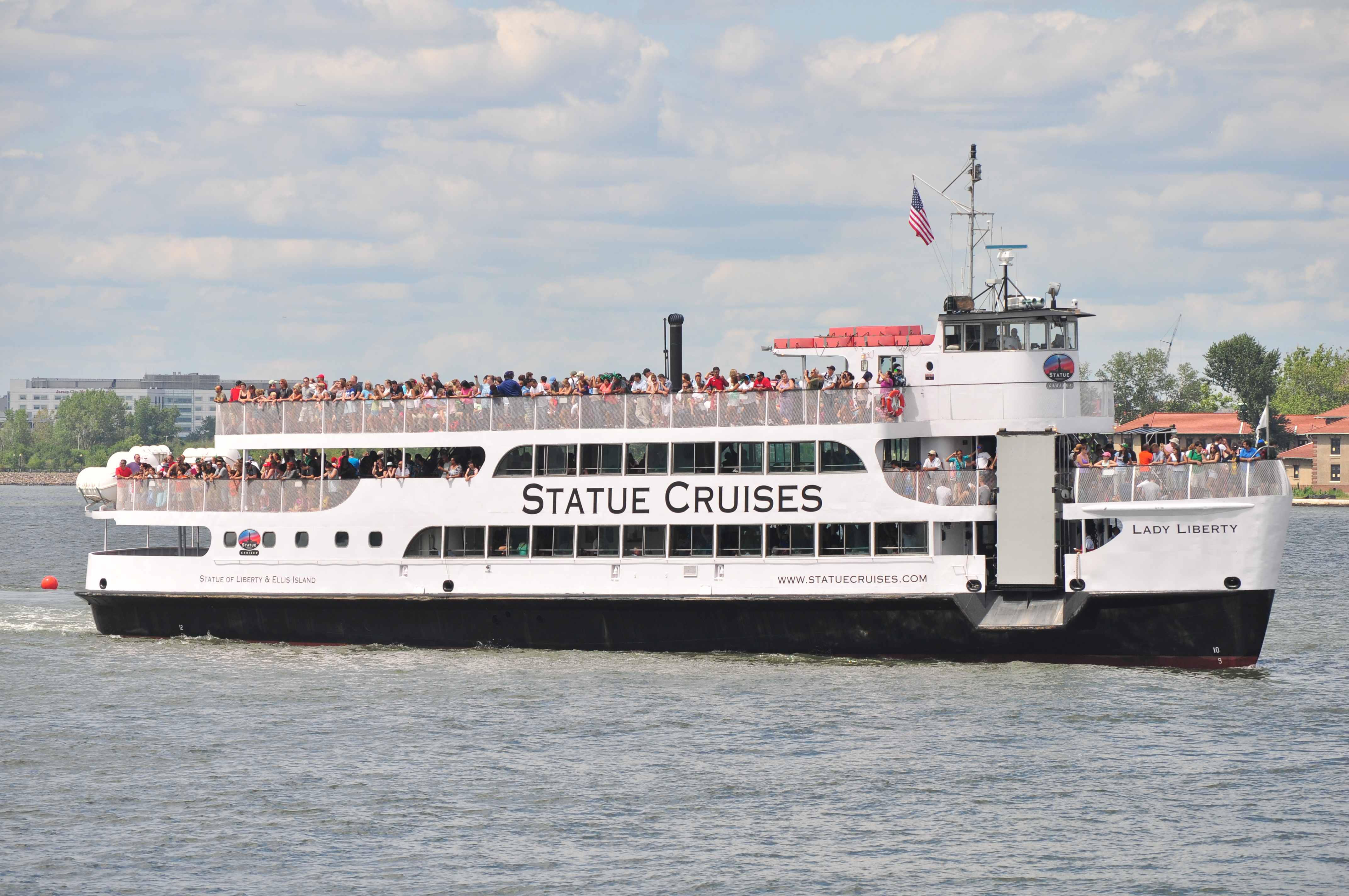 Statue Cruises ship Lady Liberty near Ellis Island in New York Harbor, seen from New York Water Taxi in New York Harbor. Statue Cruises, owned by Hornblower Cruises, currently has a monopoly on cruises to Liberty and Ellis Islands.